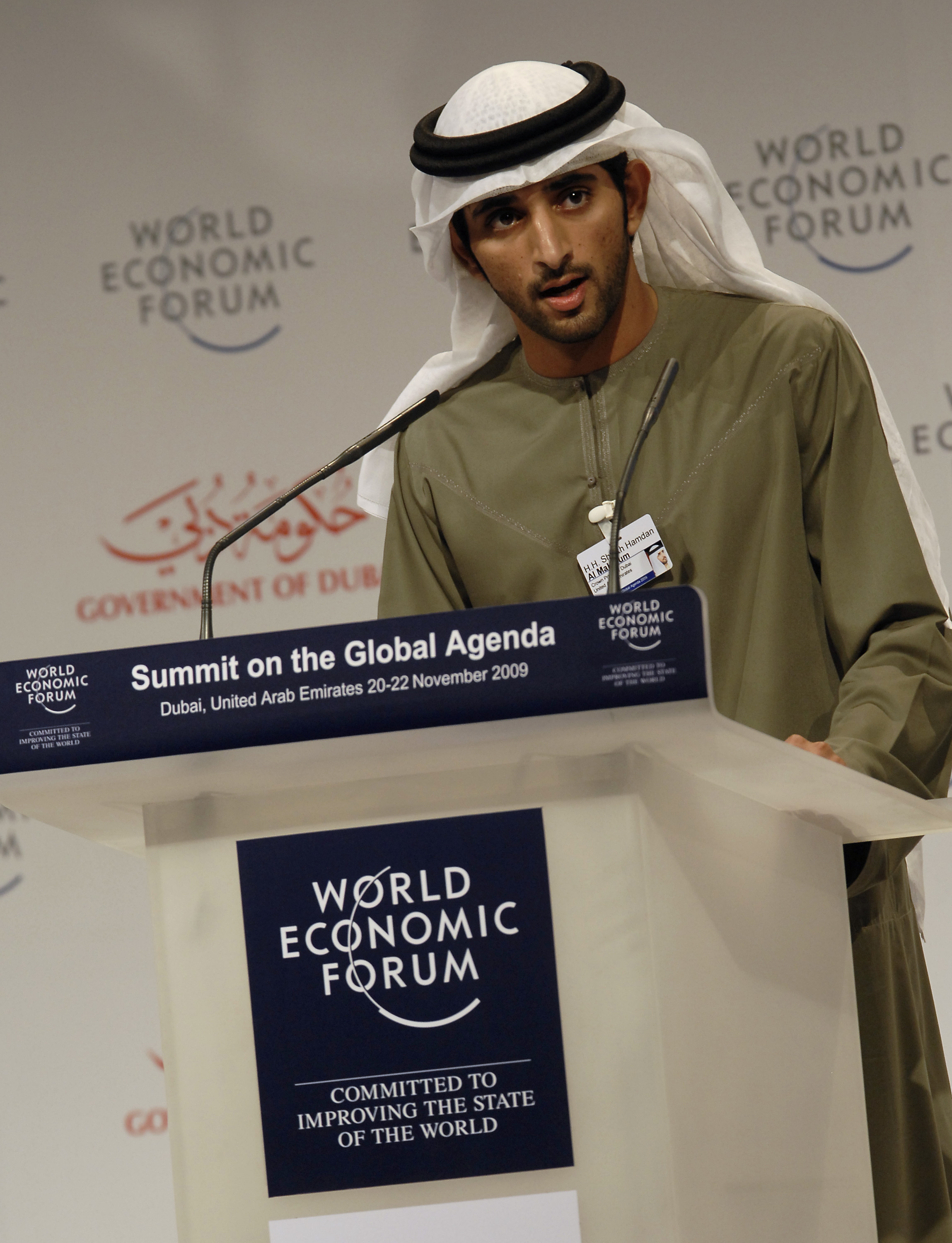 DUBAI, UNITED ARAB EMIRATES, 20NOV09 - H.H. Sheikh Hamdan Bin Mohammed Bin Rashid Al Maktoum, Crown Prince of Dubai, speaks at the opening plenary session of the World Economic Forum's Summit on the Global Agenda 2009 held in Dubai, 20-22 November 2009. Copyright (cc-by-sa) © World Economic Forum ( /Photo Norbert Schiller)